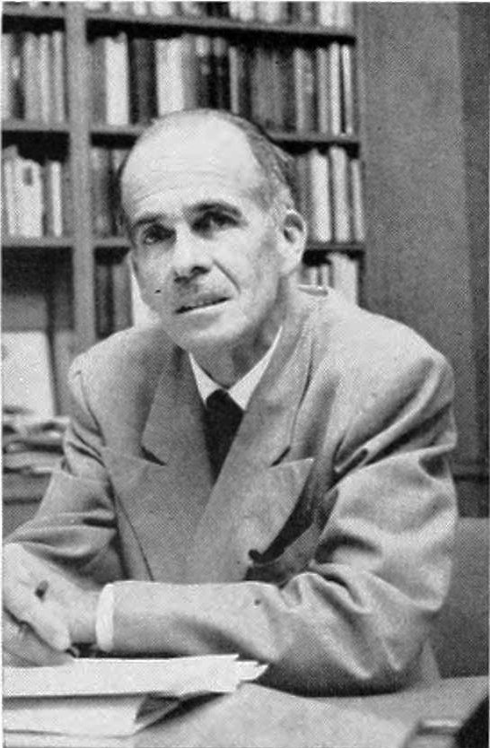 UCLA University Librarian Lawrence Powell